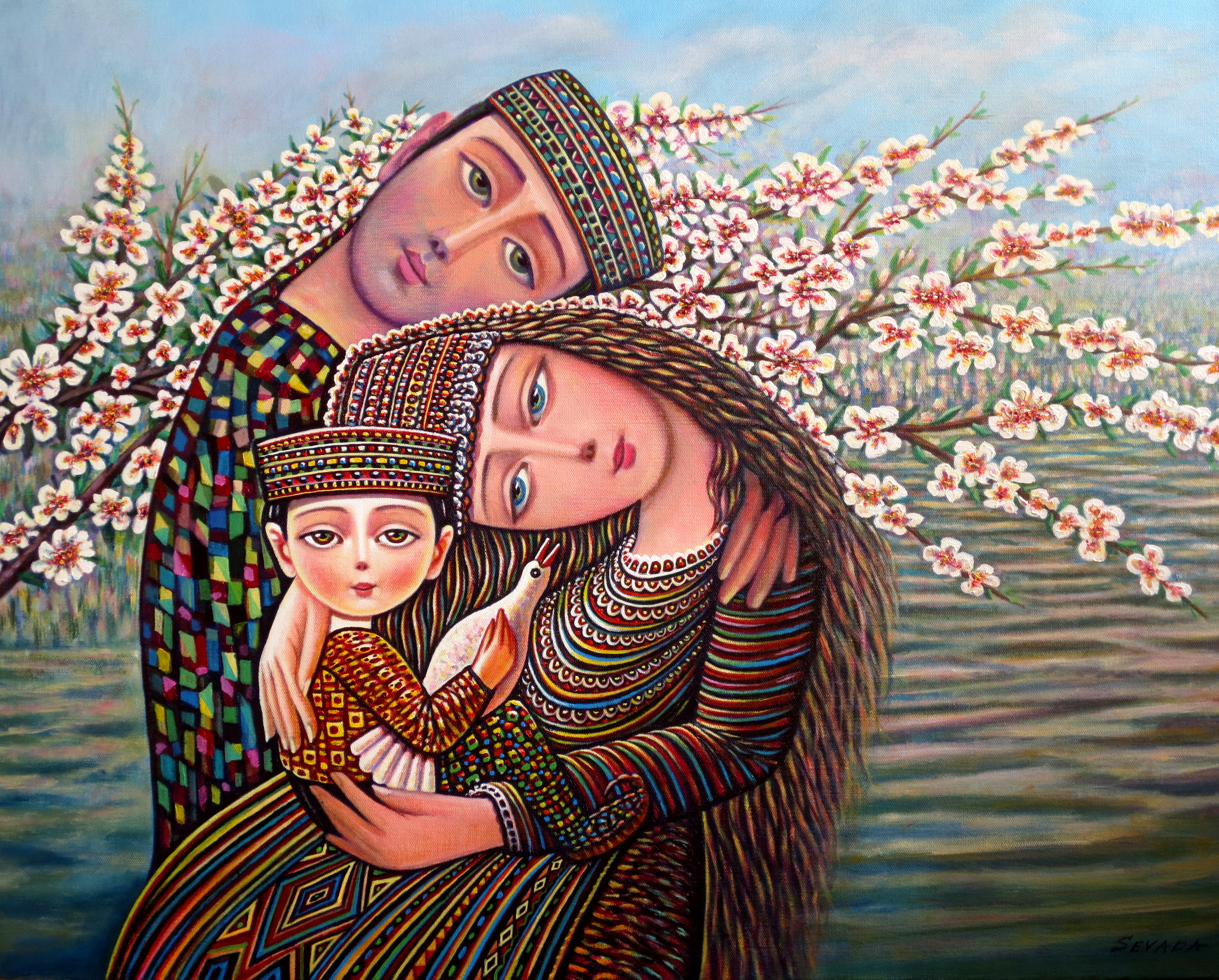 2015, 80 x 100 cm, acrylic on canvas